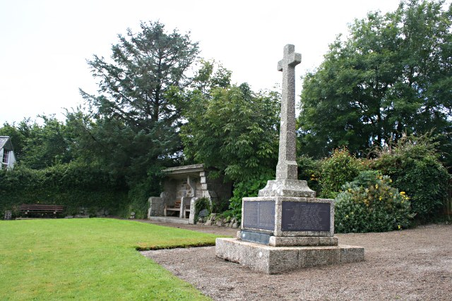 Madron Memorial Garden Located opposite the church, this is a good quiet place except on Mayday when the village children dance around the maypole on this green.